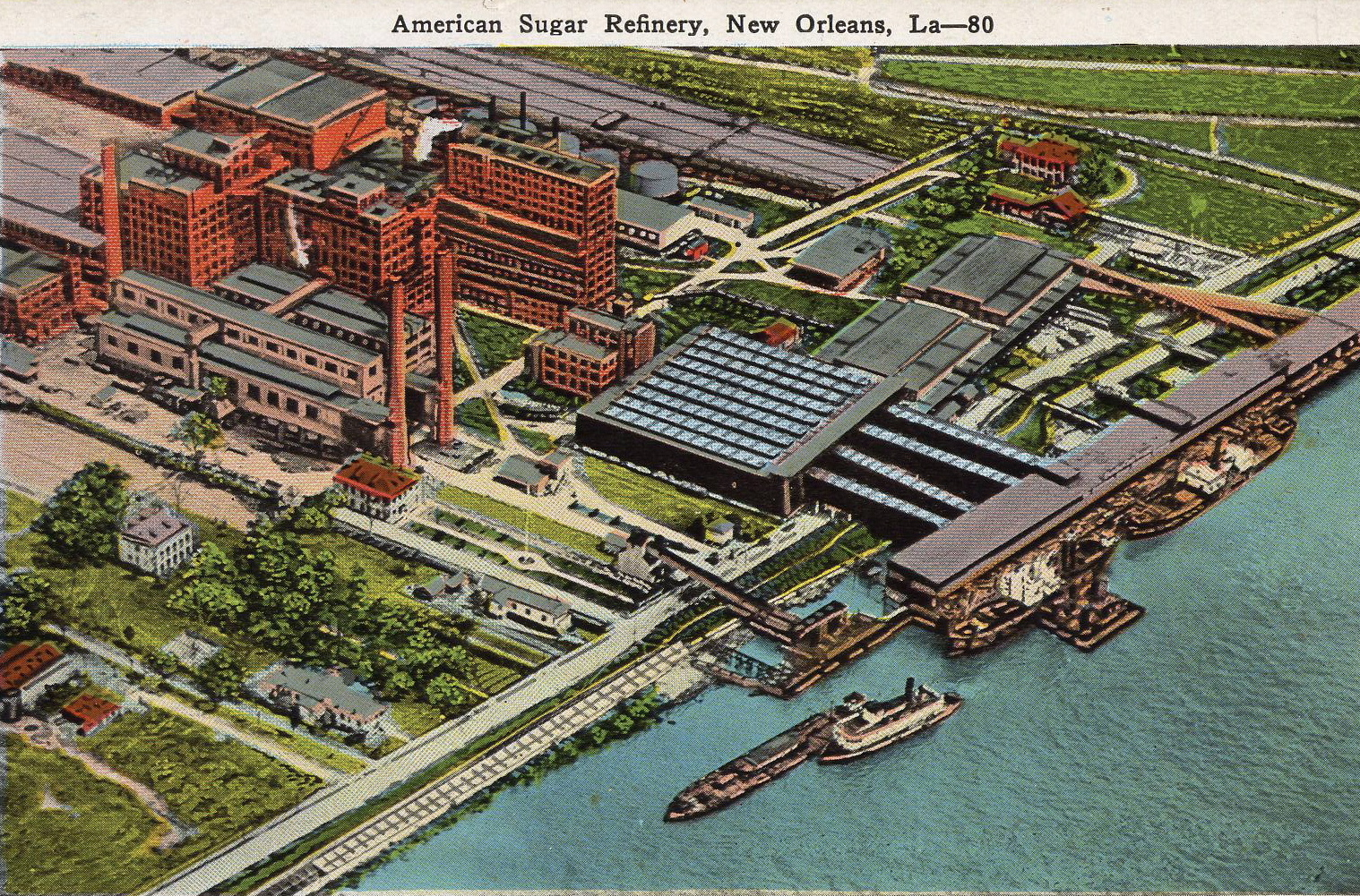 American Sugar Refinery complex, Arabi, Louisiana (Note: in Arabi, a short distance outside of the city of New Orleans, not in New Orleans itself as the printed caption states.) Air view from postcard. Docks and ships along Mississippi River front visible. Caption on back: "American Sugar Refinery, near the famous Chalmette battlefield, just below New Orleans, is the largest single unit sugar refinery in the world and employes over 2000 workers."